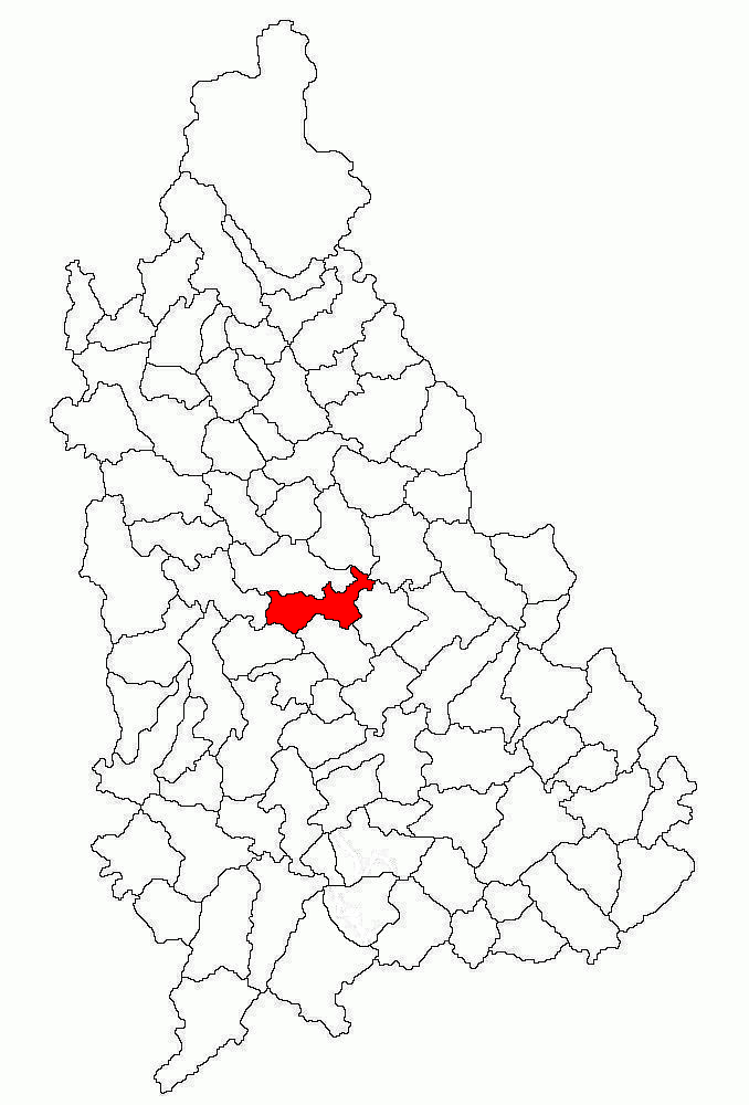 Locator map of Ulmi Commune in Dâmbovița County, Romania